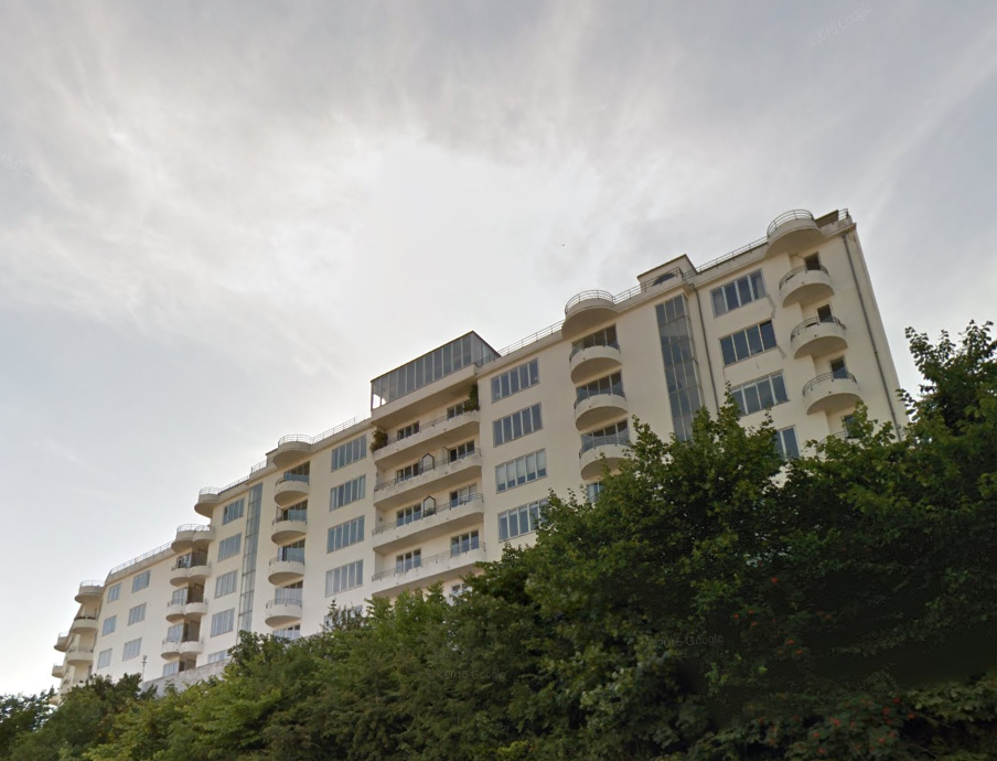 Klintegaarden